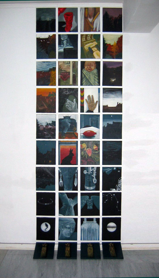 Inside and Outside – Wall Carpet by German artist Yolanda Feindura, photo made by Yolanda Feindura in 2008